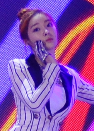 Lee Areum in Vietnam, on Nov 29, 2012